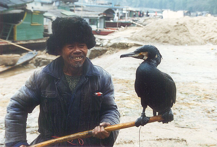 trained Great Cormorant and owner, Xing Ping near Guilin Province